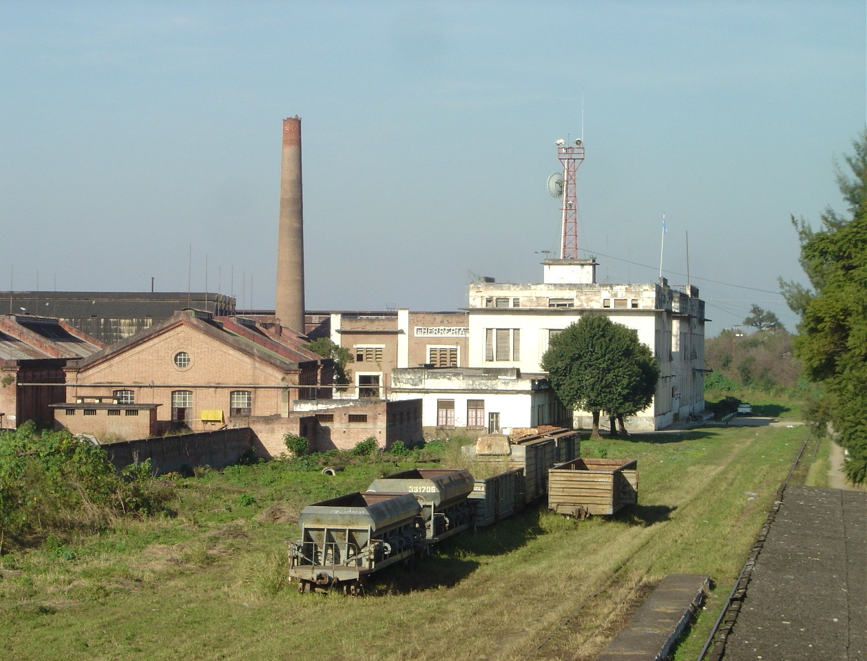 Railway Shops, Tafí Viejo, Tucumán, Argentina.